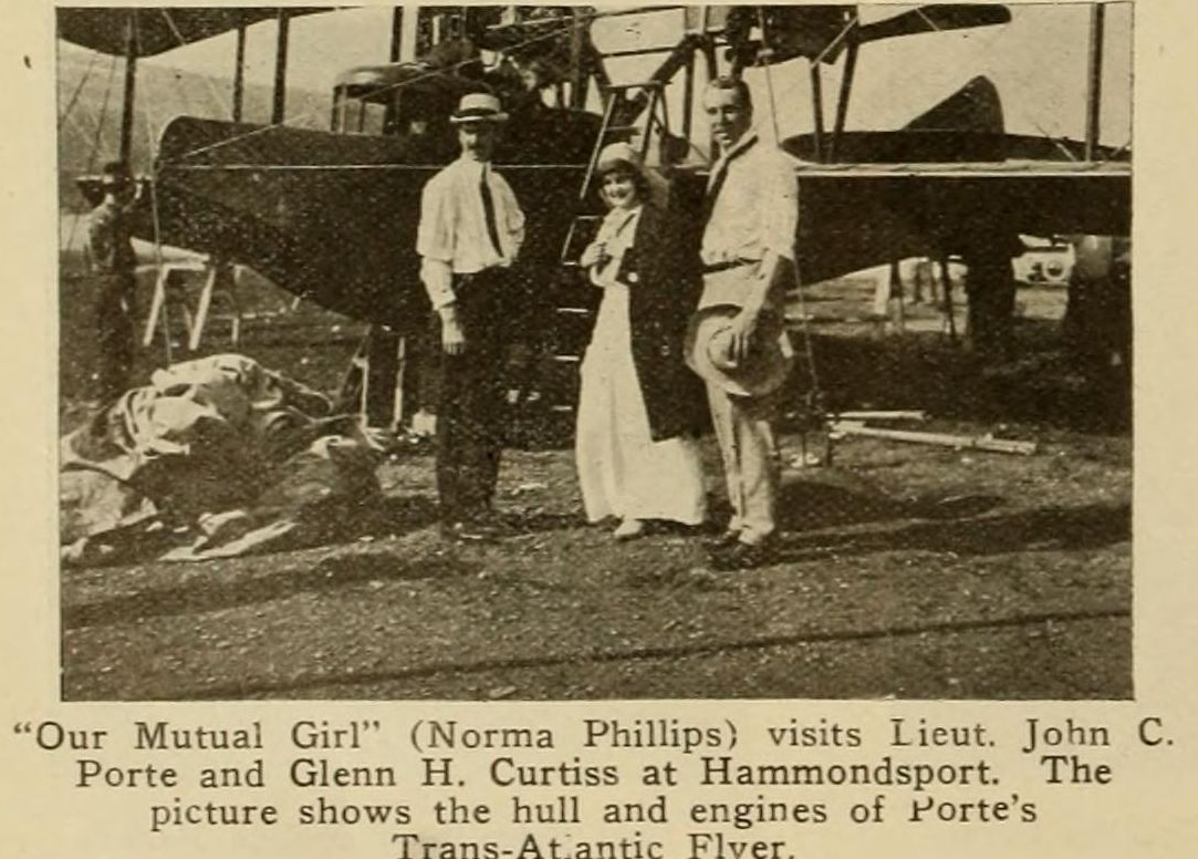 Cutting from Moving Picture World showing Glenn Curtiss, Norma Phillips, John Cyril Porte and the America flying boat